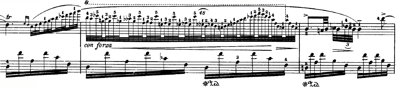 Intricate ornamentation in Op 27, No 2